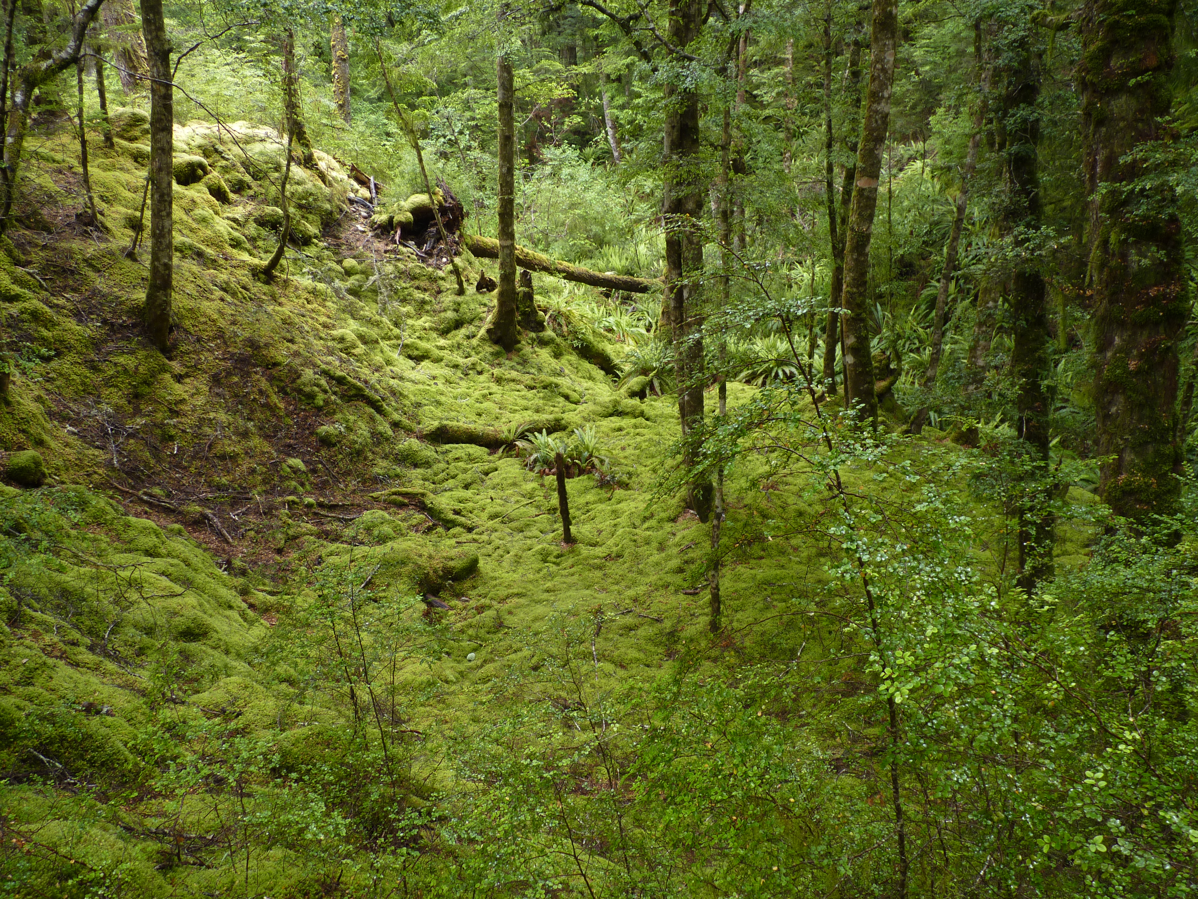 Kepler Track, South Island, New Zealand